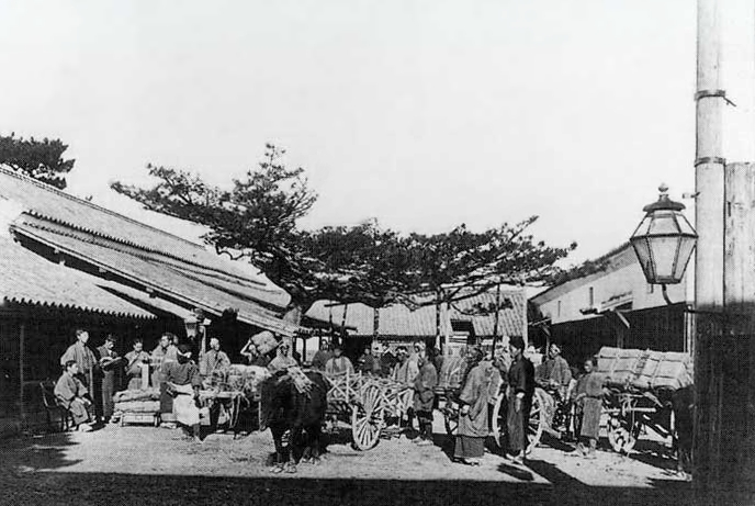 Niihama Kuchiya in Niihama, Ehime pref., Japan.